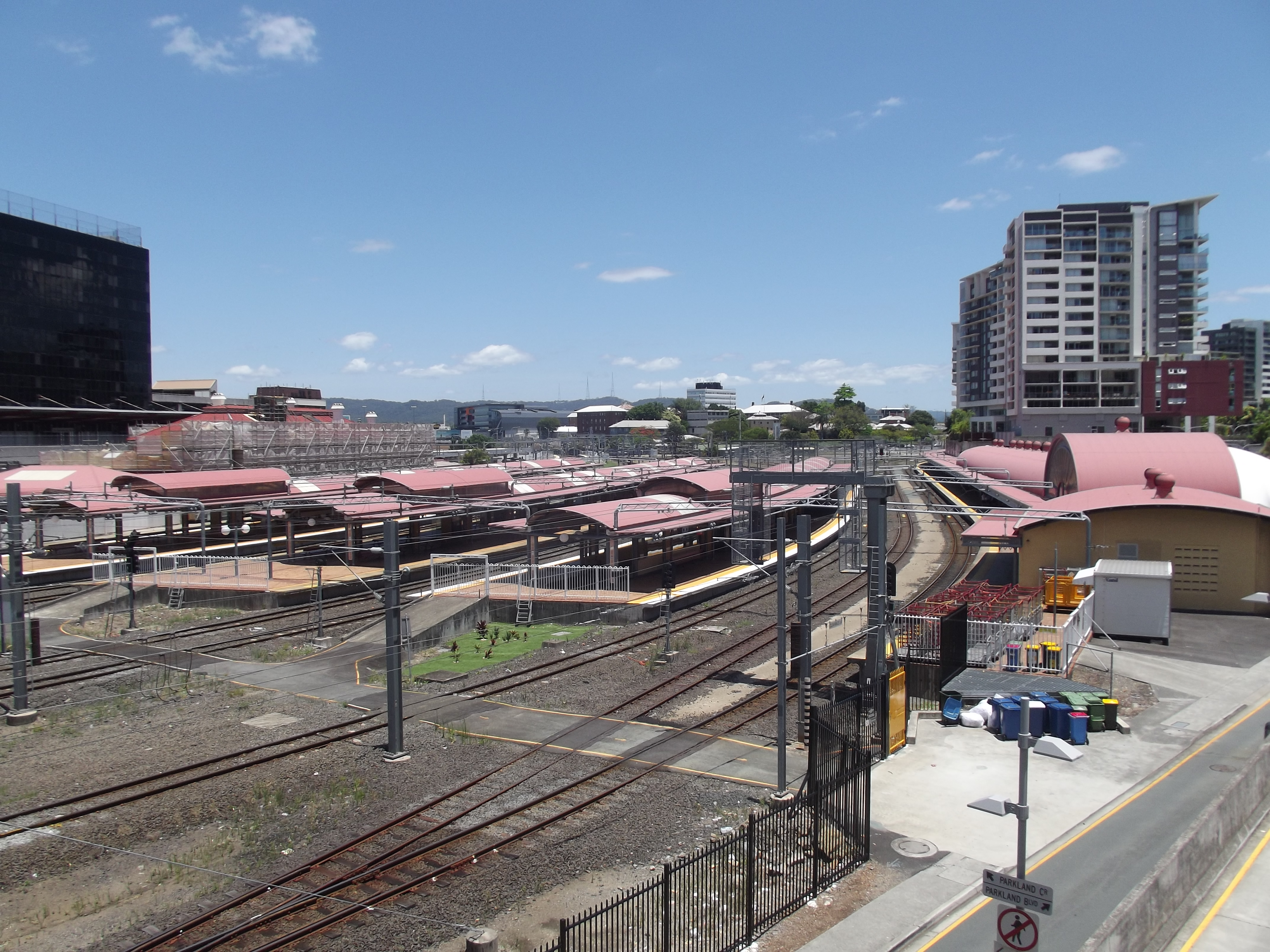 Roma Street railway station, seen from the walkway above.